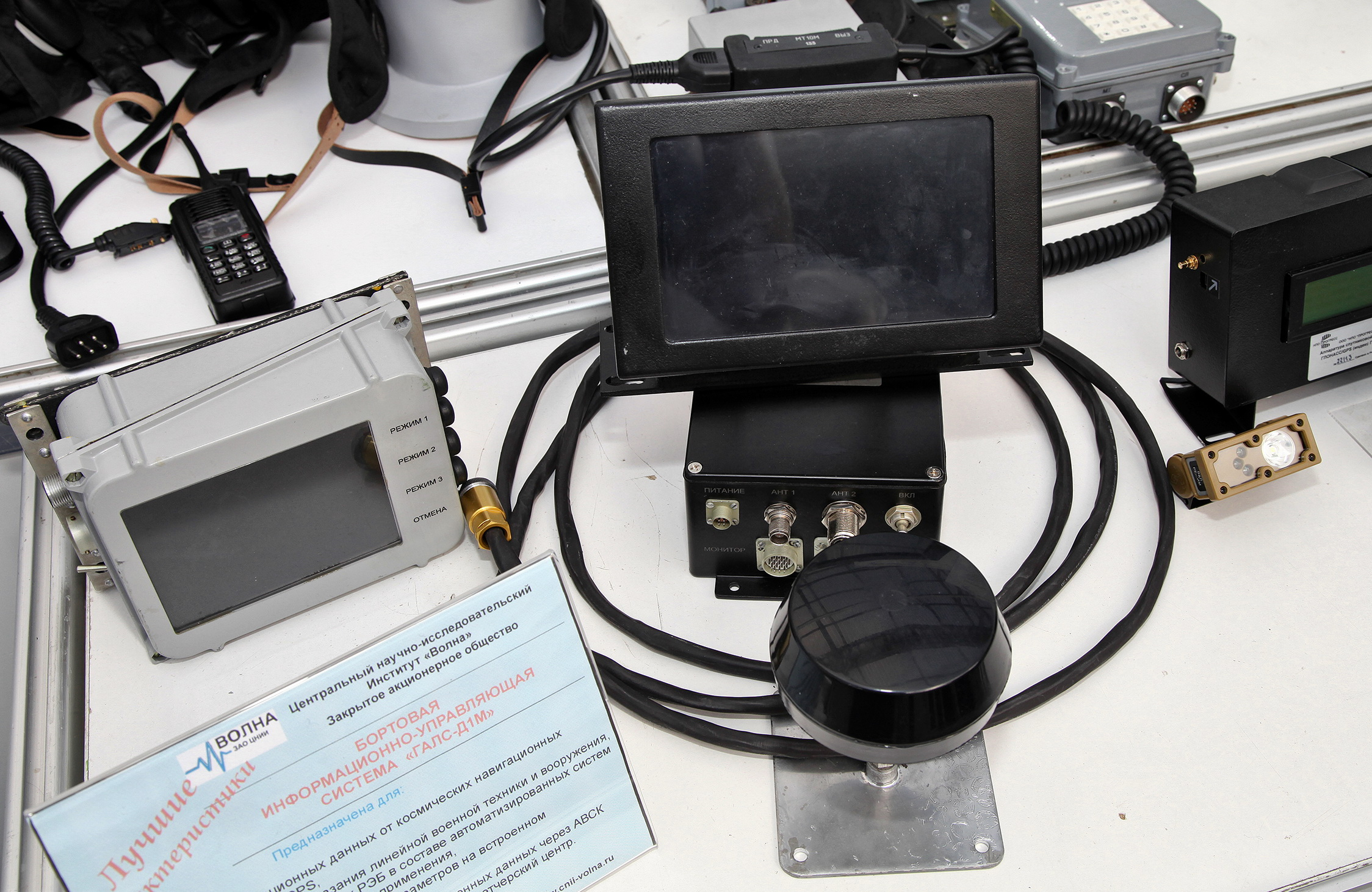 On-board information and control system GALS-D1M. According to the developers, the system was installed in Tayfun armored vehicles